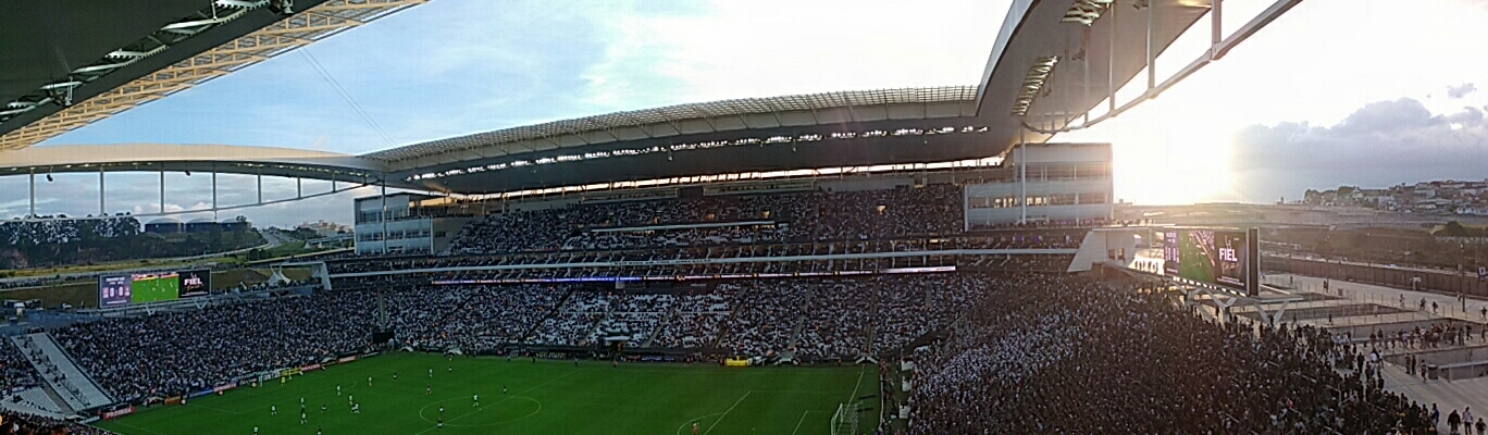 Panorama view of the eastern sector of the Corinthians Arena